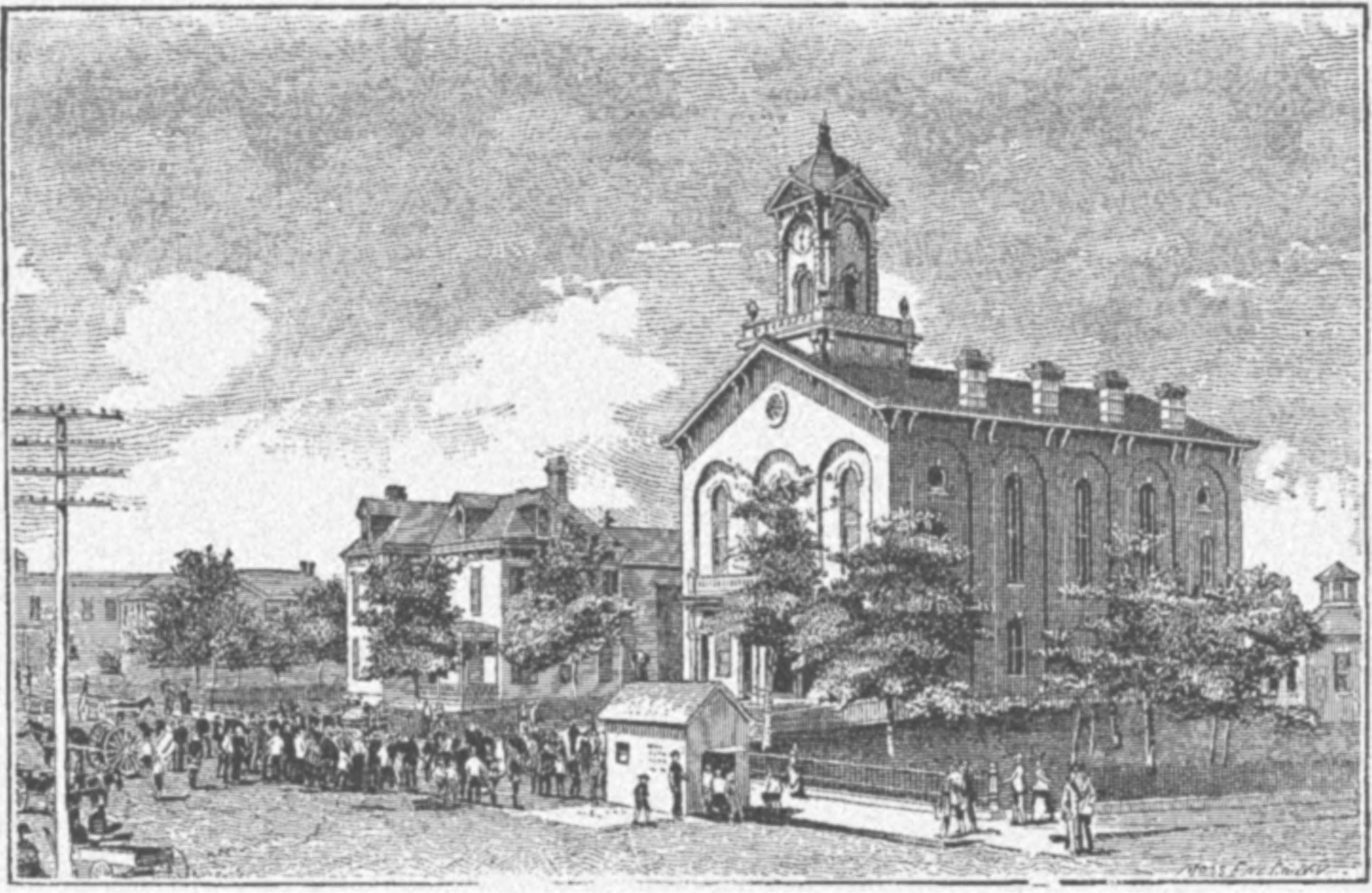 Title: Historical Collections of Ohio: An Encyclopedia of the State ; History Both General and Local, Geography with Descriptions of Its Counties, Cities and Villages, Its Agricultural, Manufacturing, Mining and Business Development, Sketches of Eminent and Interesting Characters, Etc., with Notes of a Tour over It in 1886 V 2 Year: 1891 (1890s) Authors: Howe, Henry, 1816-1893 Subjects: Ohio -- Biography Ohio -- History Ohio -- Local History Ohio -- Description and travel Publisher: Columbus : Henry Howe & Son View Book Page: Book Viewer About This Book: Catalog Entry View All Images: All Images From Book Click here to view book online to see this illustration in context in a browseable online version of this book. Text Appearing Before Image: Miners Tools. Text Appearing After Image: Miller it Tfilli&ms, Phot:, J«cfcs»», 1SS6. Jackson. 239 JACKSON COUNTY. 241 a prisoner. The meeting between them was affecting.In his own simple and artless language: We give the particulars Mrs. Martin s Stoiy.—It was now betterthan a year after I was taken prisoner, whenthe Indians started off to the Scioto salt-springs, near Chillicothe, to make salt, andtook me along with them. Here I got to seeMrs. Martin, that was taken prisoner at the;same time I was, and this was the first time■that I had seen her since we were separatedat the council-house. When she saw me, she-came smiling, and asked me if it was me. Itold her it was. She asked me how I hadbeen. I told her I had been very unwell, forI had had the fever and ague for a long time.So she took me off to a log, and there we satdown ; and she combed my head, and askedme a great many questions about how I lived, and if I didnt want to see my mother andlittle brothers. I told her that I should beglad to see them, but neve